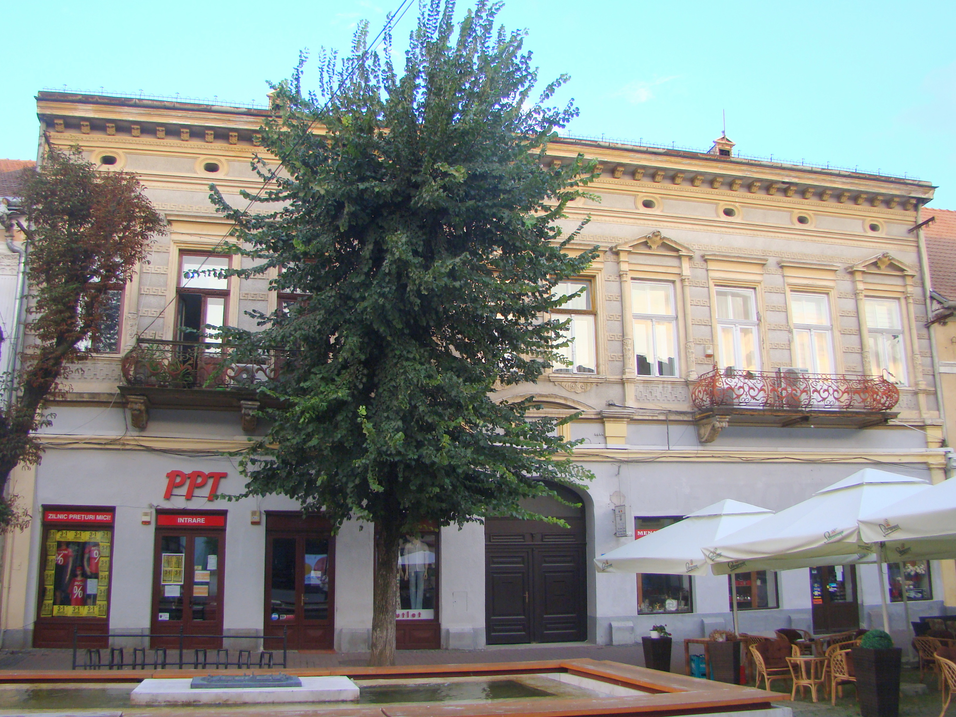 House, historic monument, in Bistrița, Liviu Rebreanu street 22